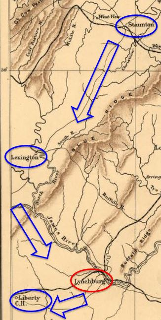 The map shows the area near Lynchburg, Virginia, in the United States of America. This is the approximate route taken by the 2nd West Virginia Cavalry as part of a larger Union army force led by General David Hunter during June 1864. Lynchburg was the Union force's objective, and the maneuver became known as "Hunter's Raid".